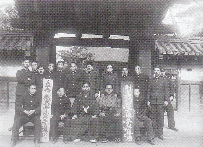 Front row (Center): Japanese karateka, Gogen Yamaguchi.